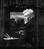 Photo of Julien Dupre in his studio